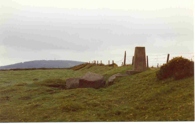 Trig point at summit of Cupidstown Hill. This is the highest point in County Kildare taken in 1997. Most of the hill was planted with coniferous trees in the late 90's. Might be a jungle by now.